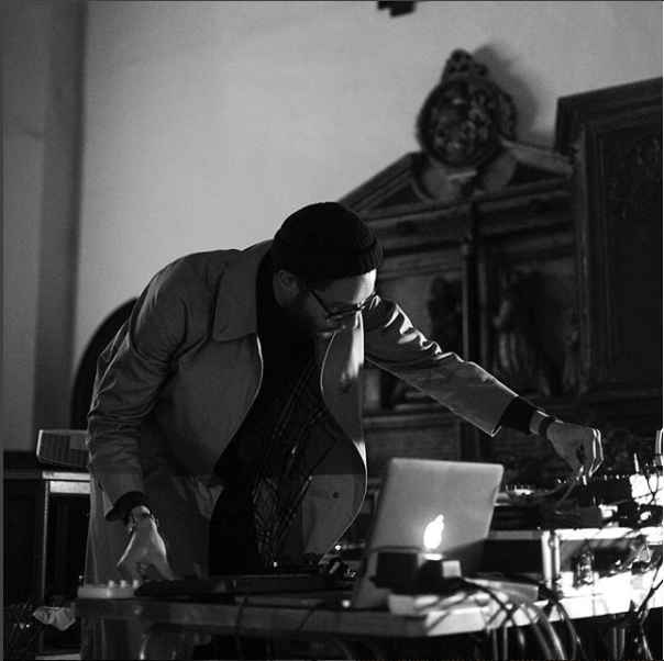 Specimens live at The Old Church in Stoke Newington London for Dronica Festival 2017